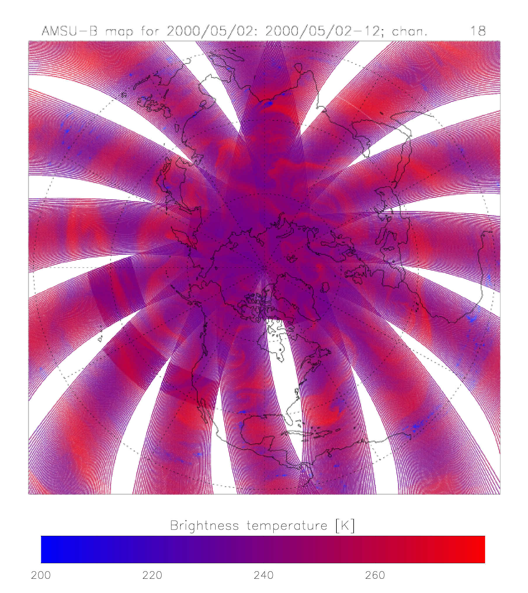 AMSUB scan tracks